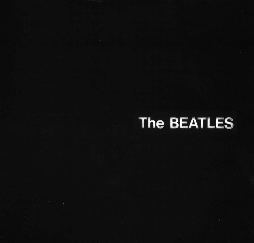 The Beatles is the ninth official album by the English rock group The Beatles, a double album released in 1968